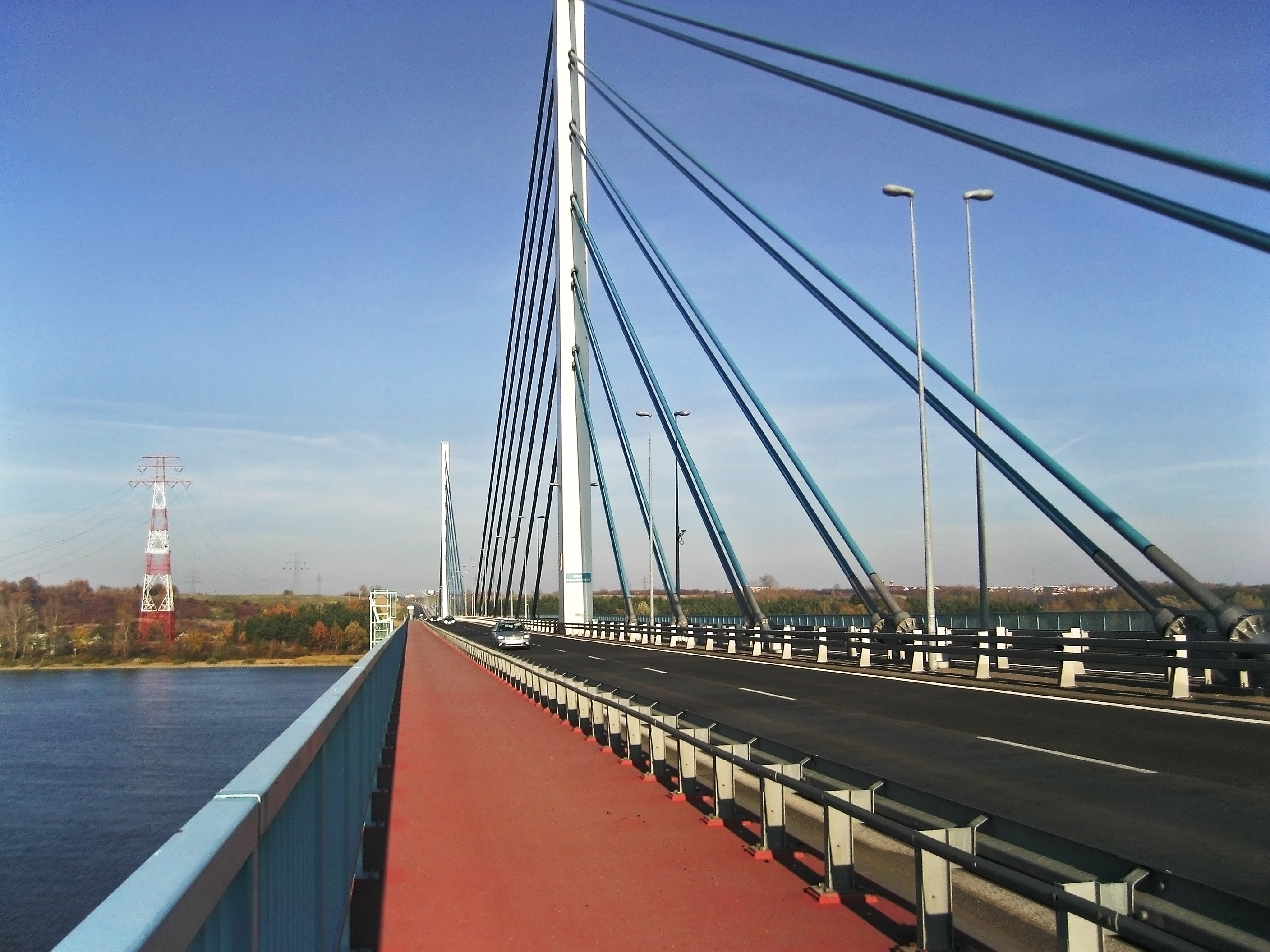 Solidarity Bridge in Płock, Poland - cable-stayed brudge